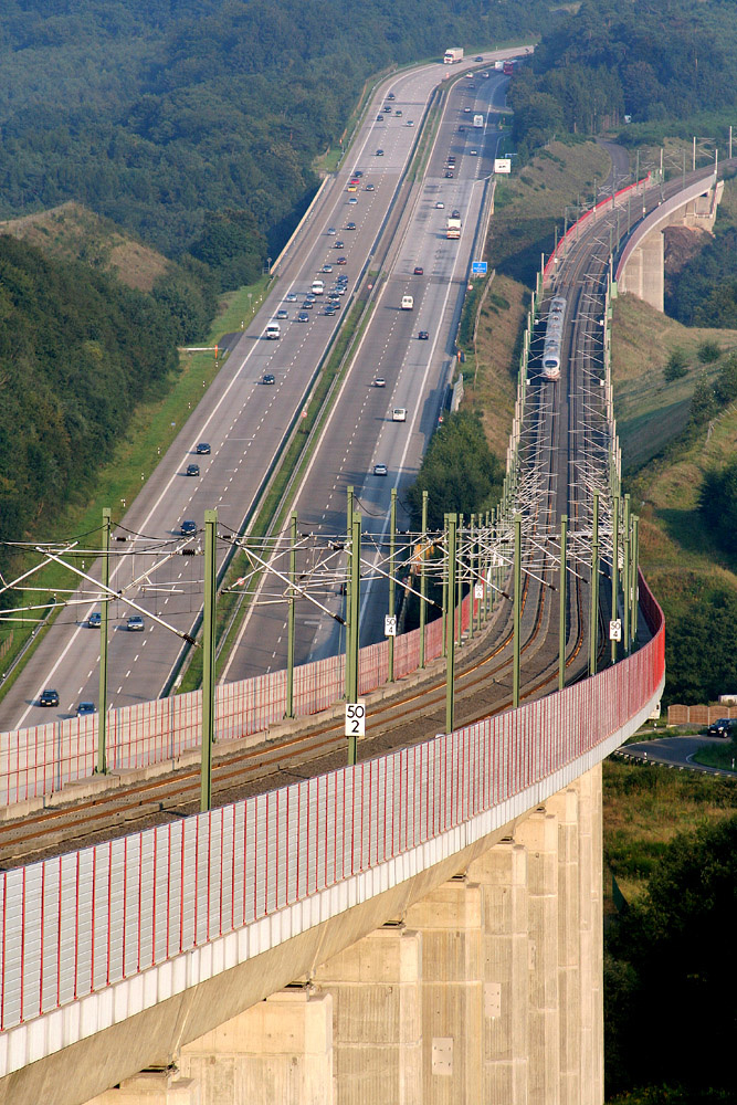 The Hallerbach and Wiedtal bridges on the Cologne-Frankfurt high-speed railway line